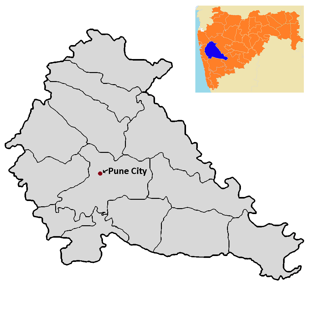 Pune city tehsil in Pune district